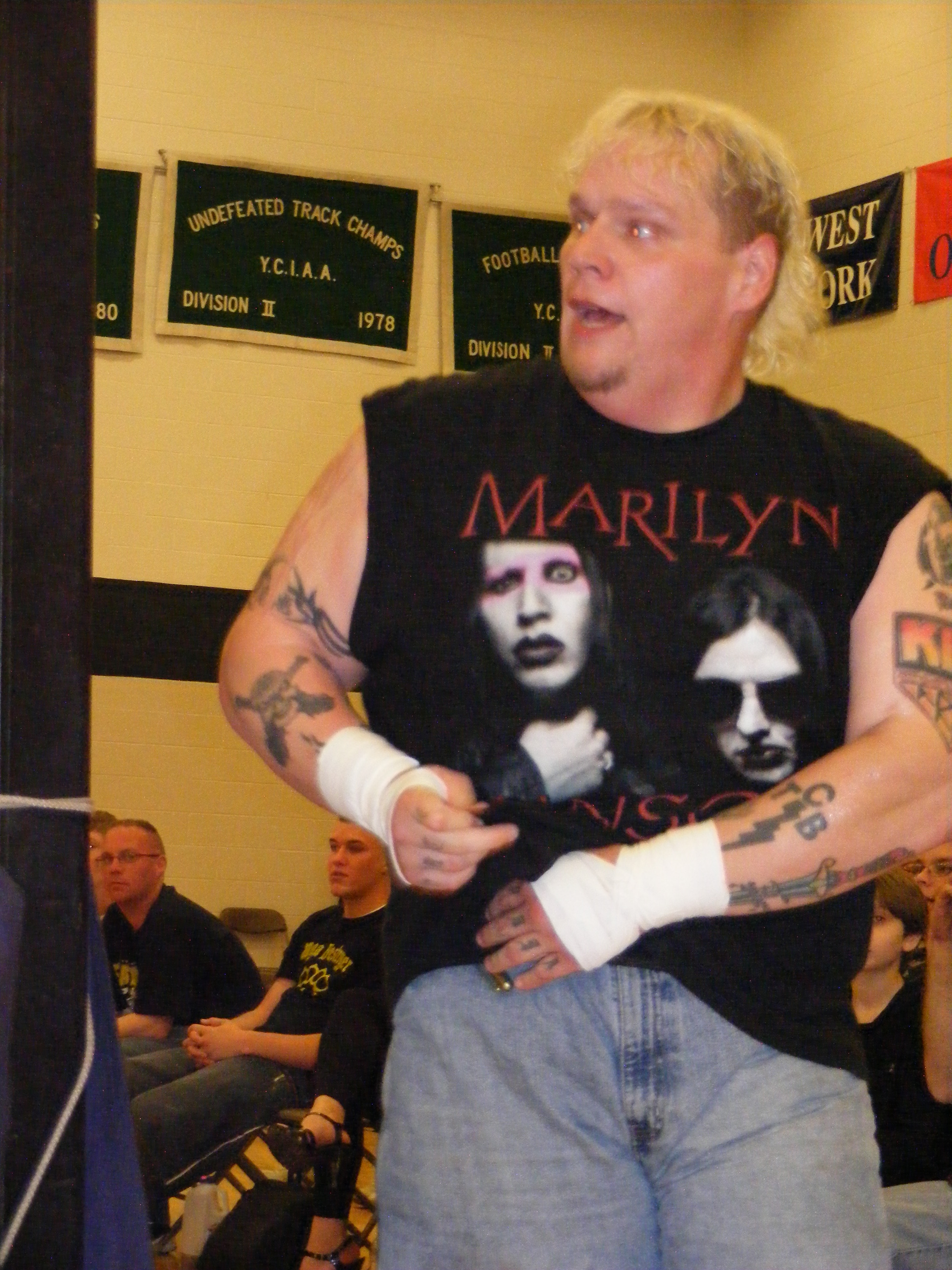 Axl Rotten, NCW show, April 18, 2009 in York, PA.